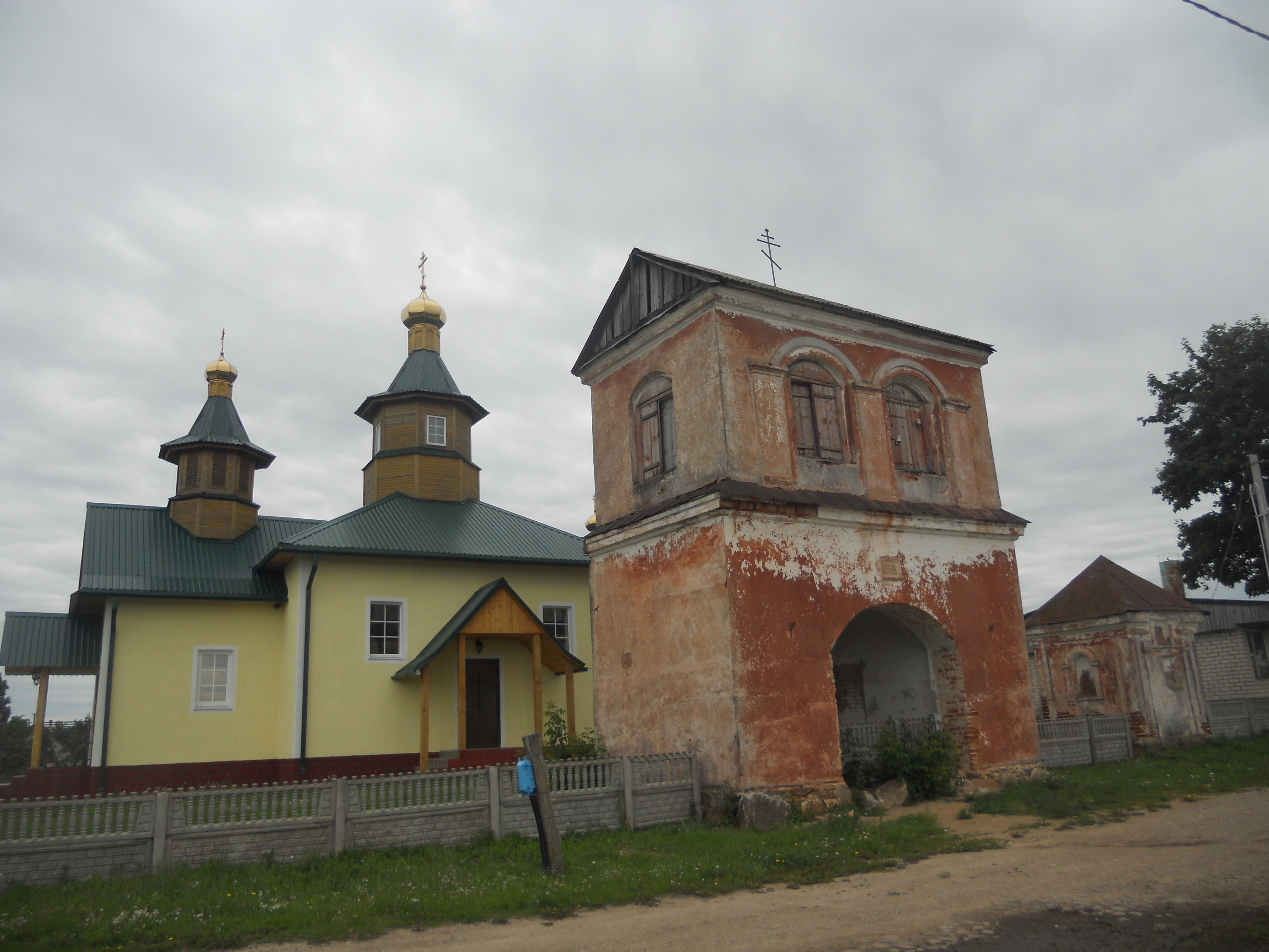 Church and bell tower in Tsimkovichi